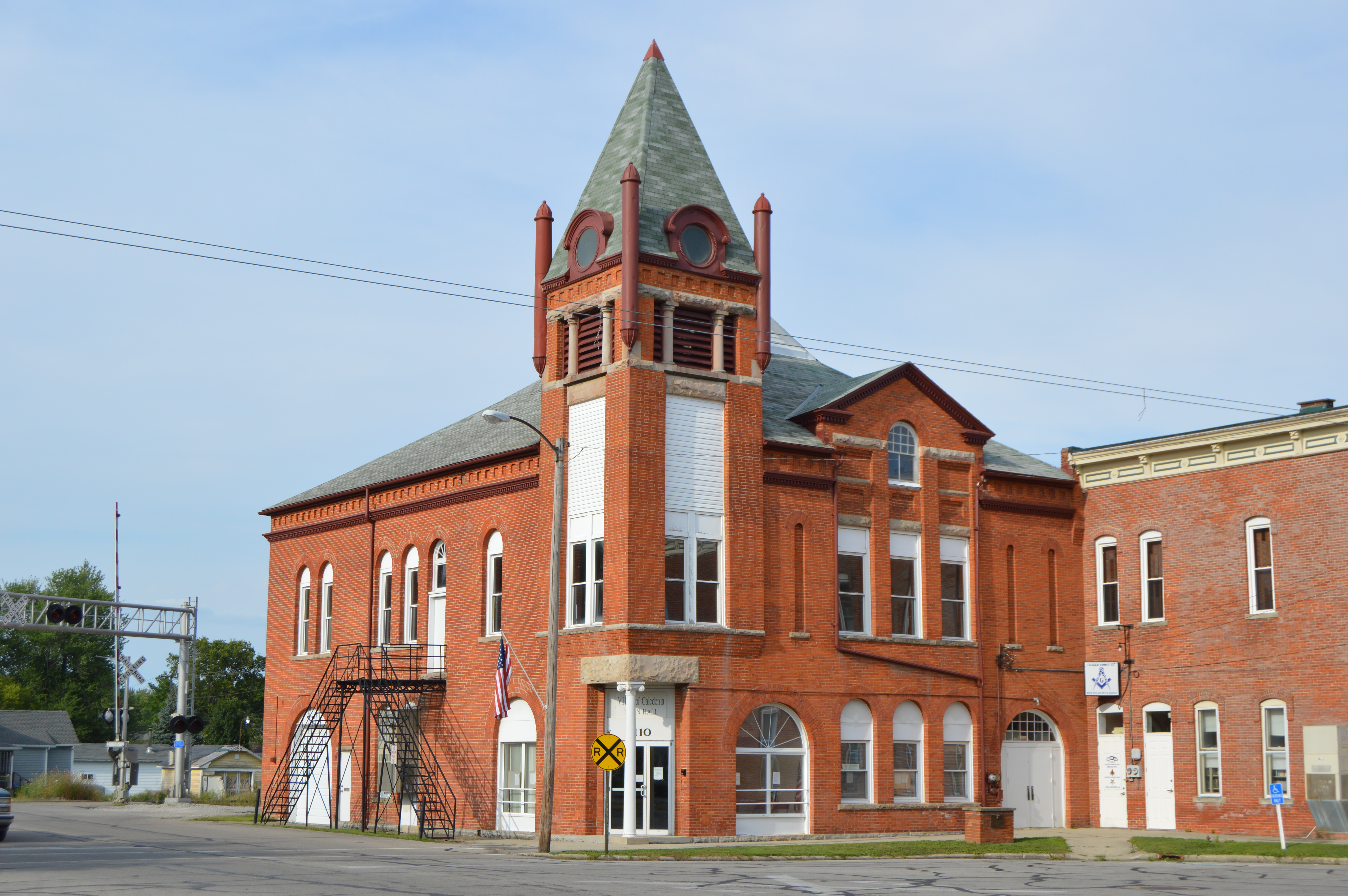 Front and western side of the Caledonia village hall, located on the northeastern corner of the public square in Caledonia, Ohio, United States.